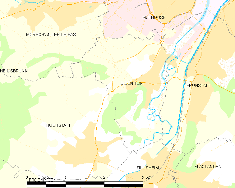 Map of French municipality